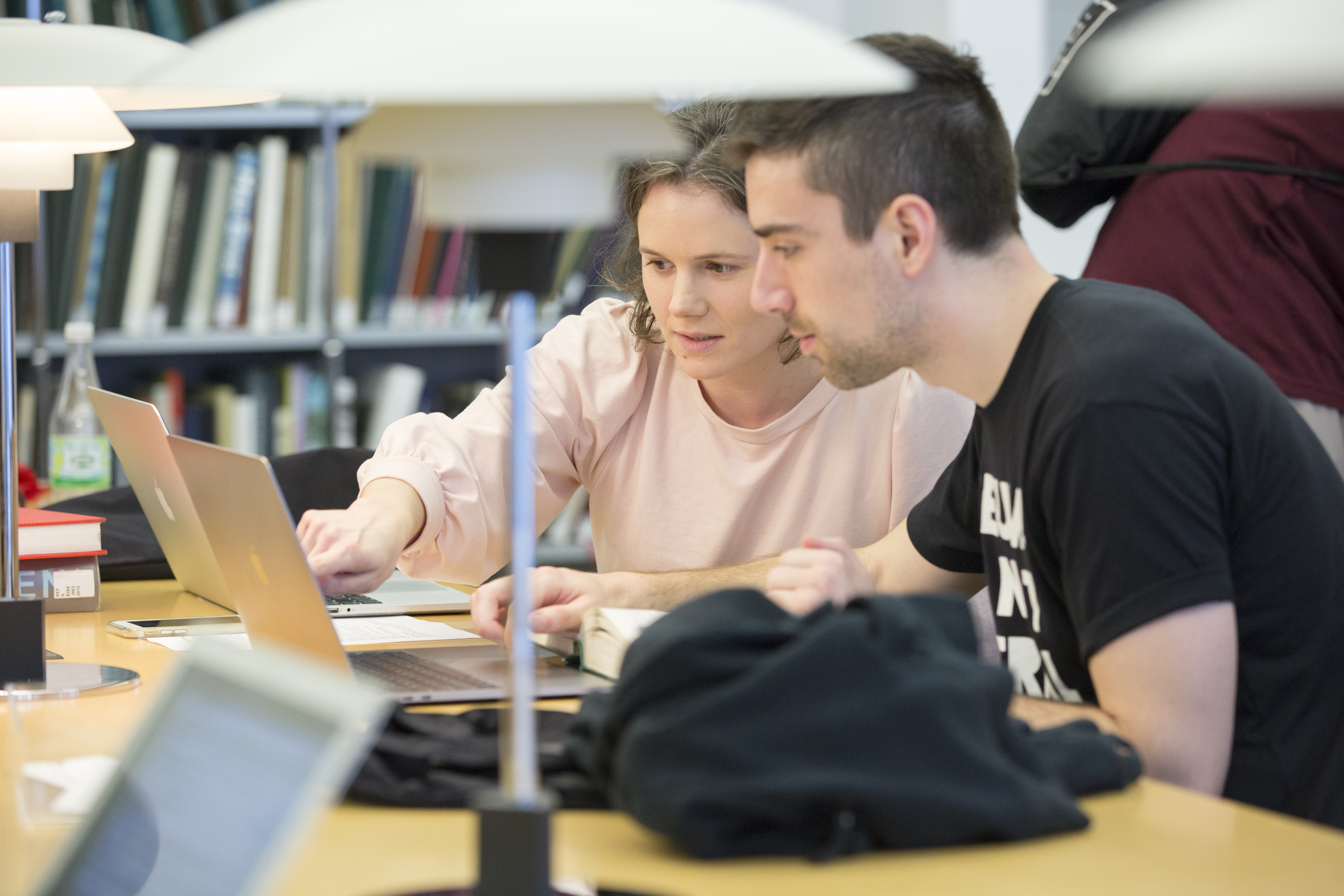 Art+Feminism at The Museum of Modern Art, New York City. March 3rd, 2018.